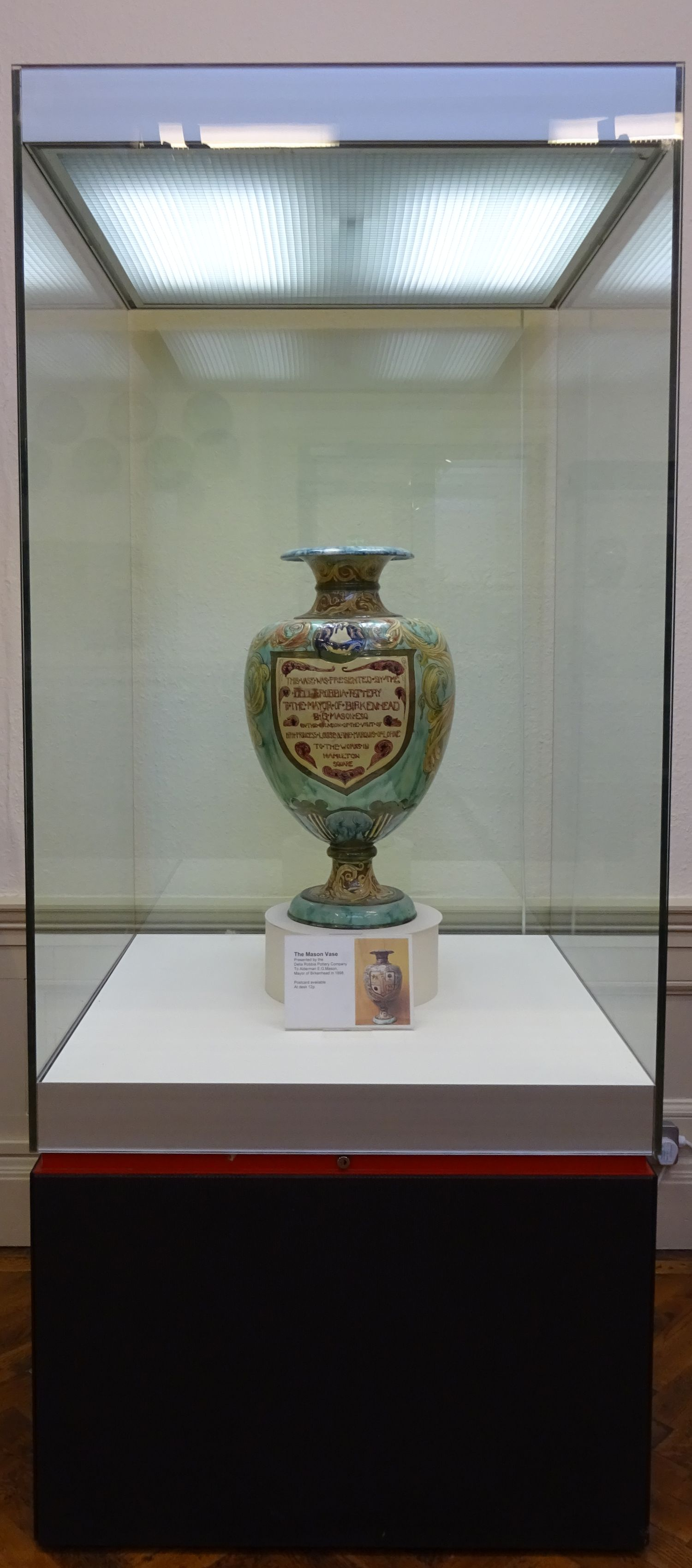 The Mason Vase, made at the Della Robbia Pottery. Williamson Art Gallery, Birkenhead, Merseyside, England.